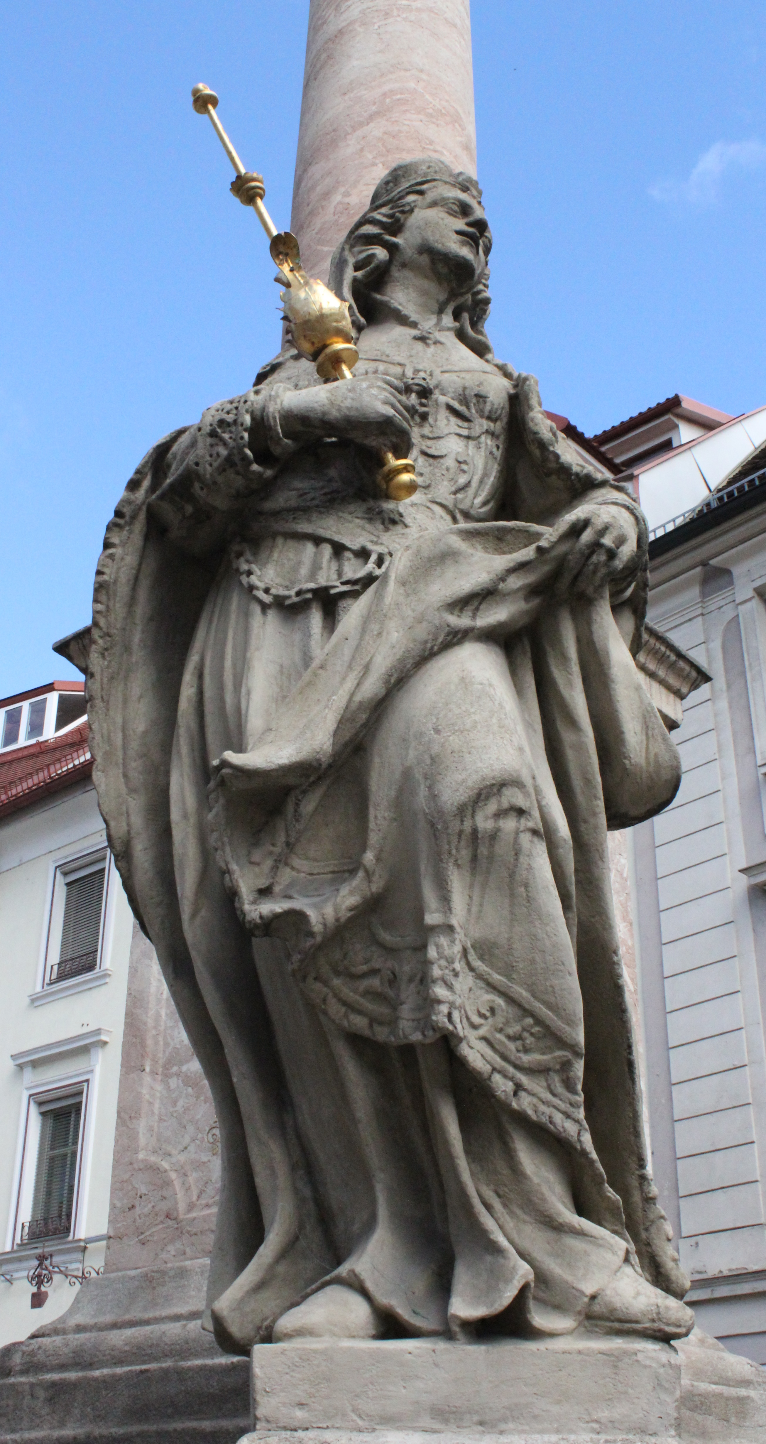 Marian and plague column in the community of Wolfsberg - Cunigunde of Luxemburg